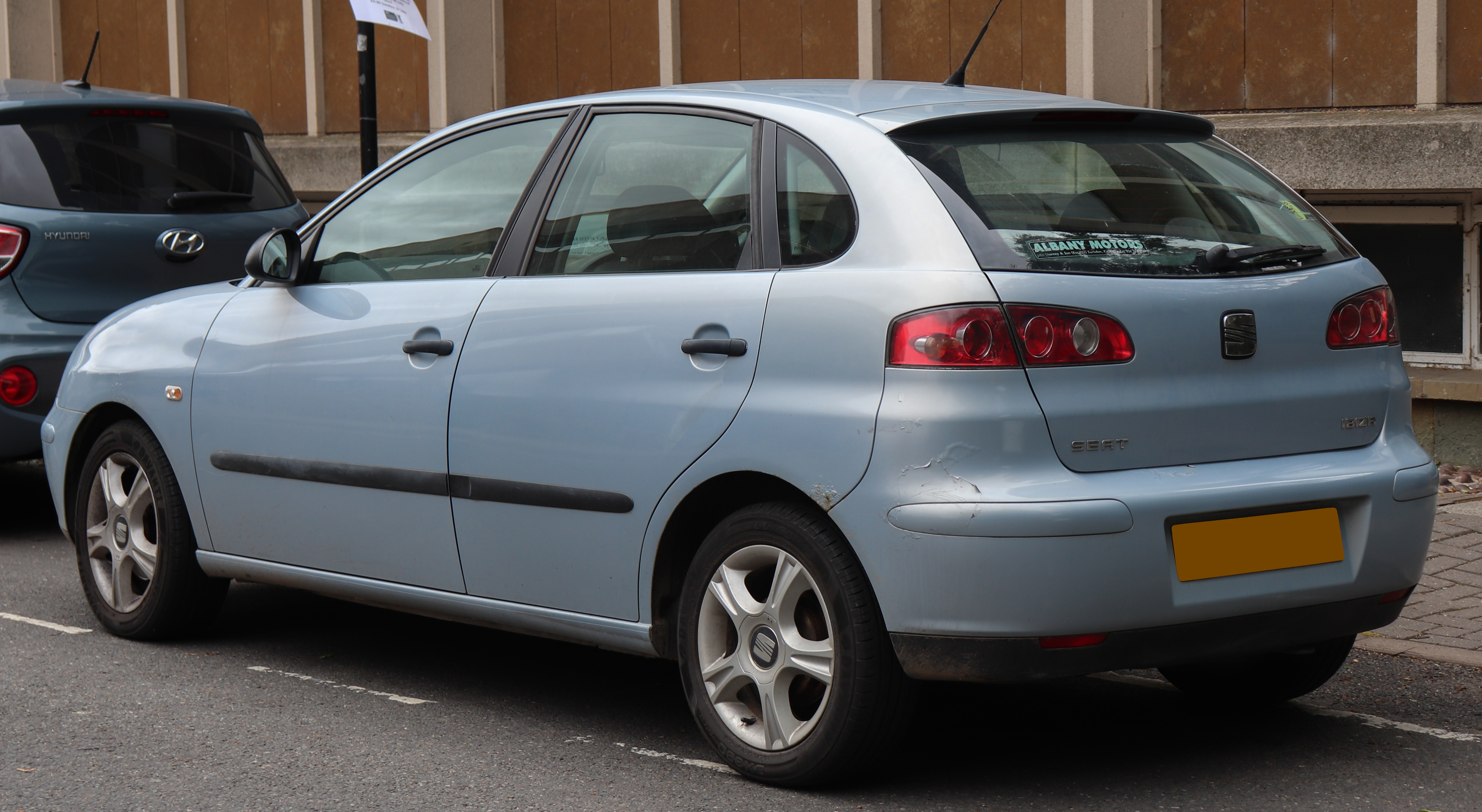 2004 SEAT Ibiza SX 1.2 Rear Taken in Warwick